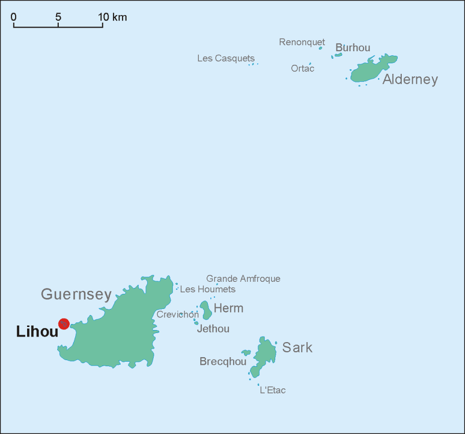 Location map of Lihou